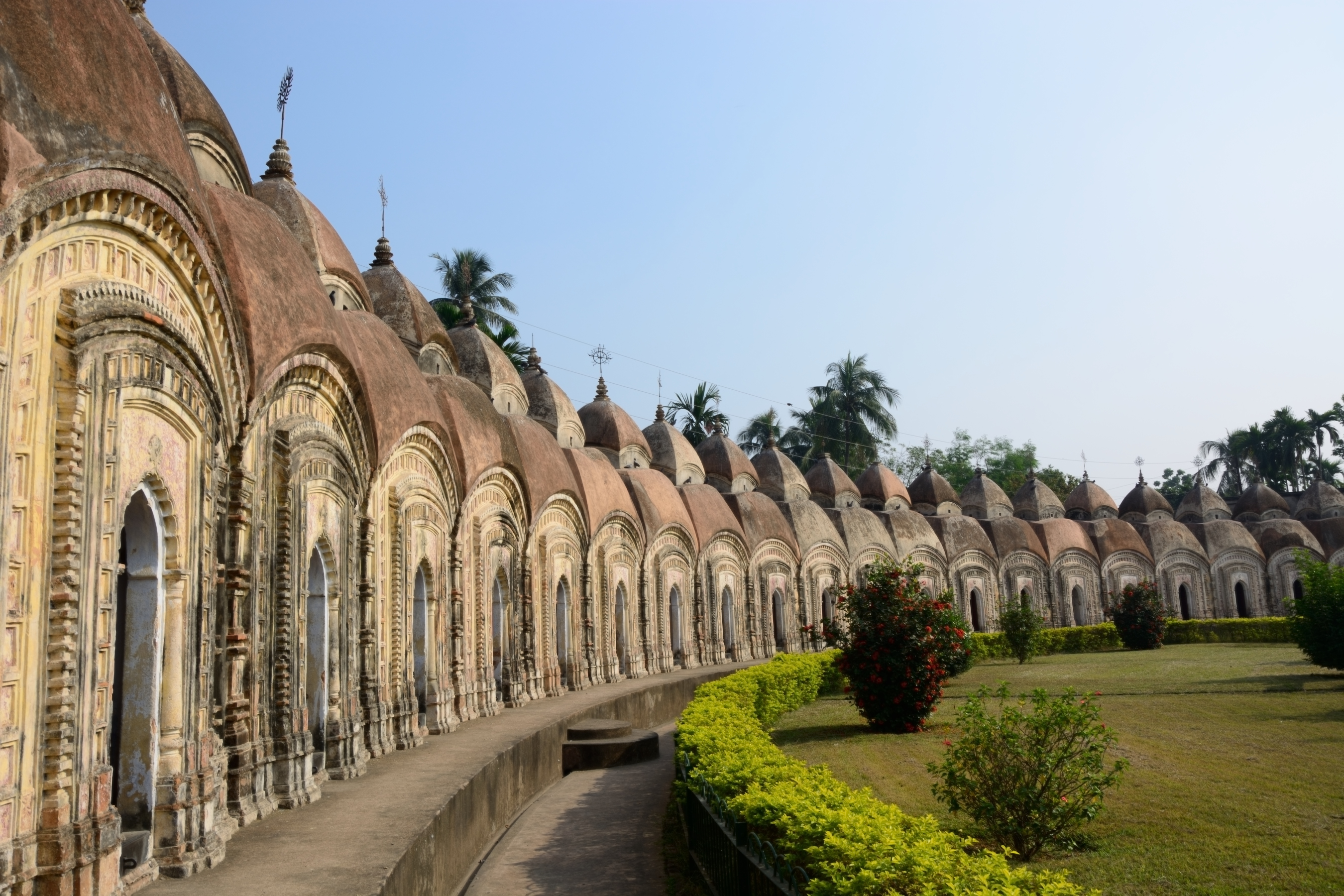 108 Shiva temples of Kalna in Barddhaman district of West Bengal.